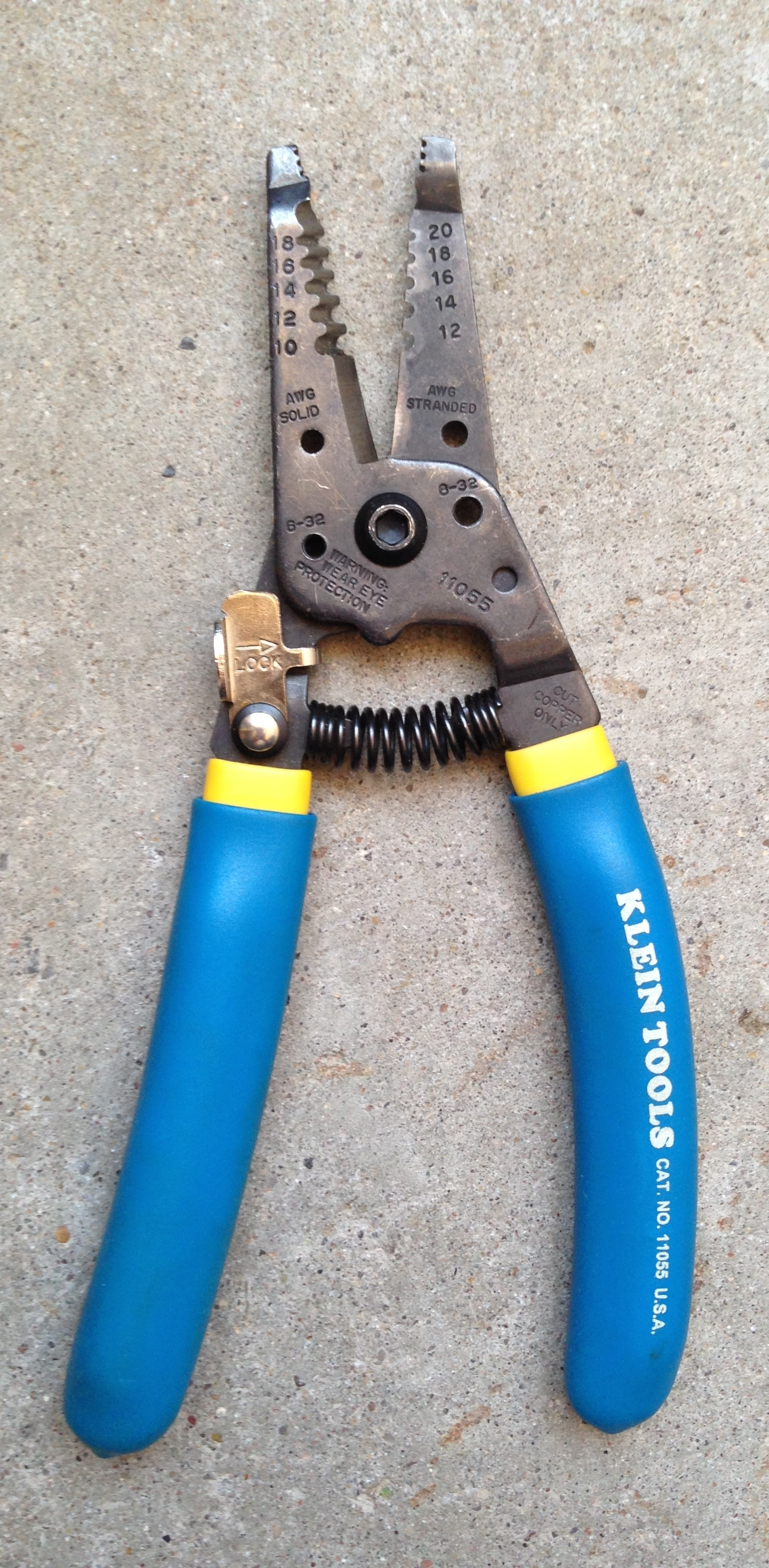 A pair of Klein wire strippers, manufactured by Stride Tool.